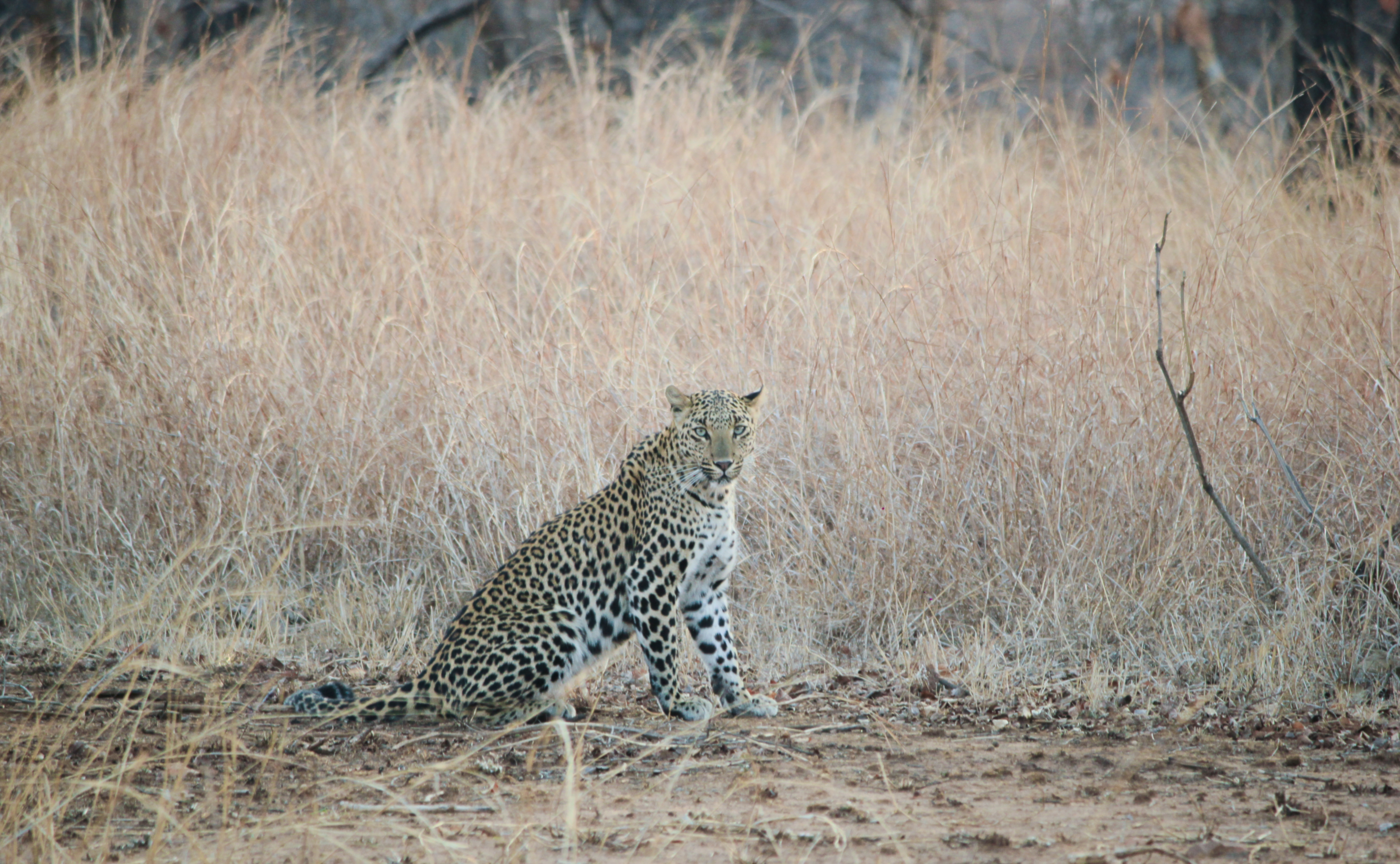 A female leopard was in stance of attack at Panna Tiger Reserve Madhya Pradesh India. Spotting a Leopard is a very rare instance .